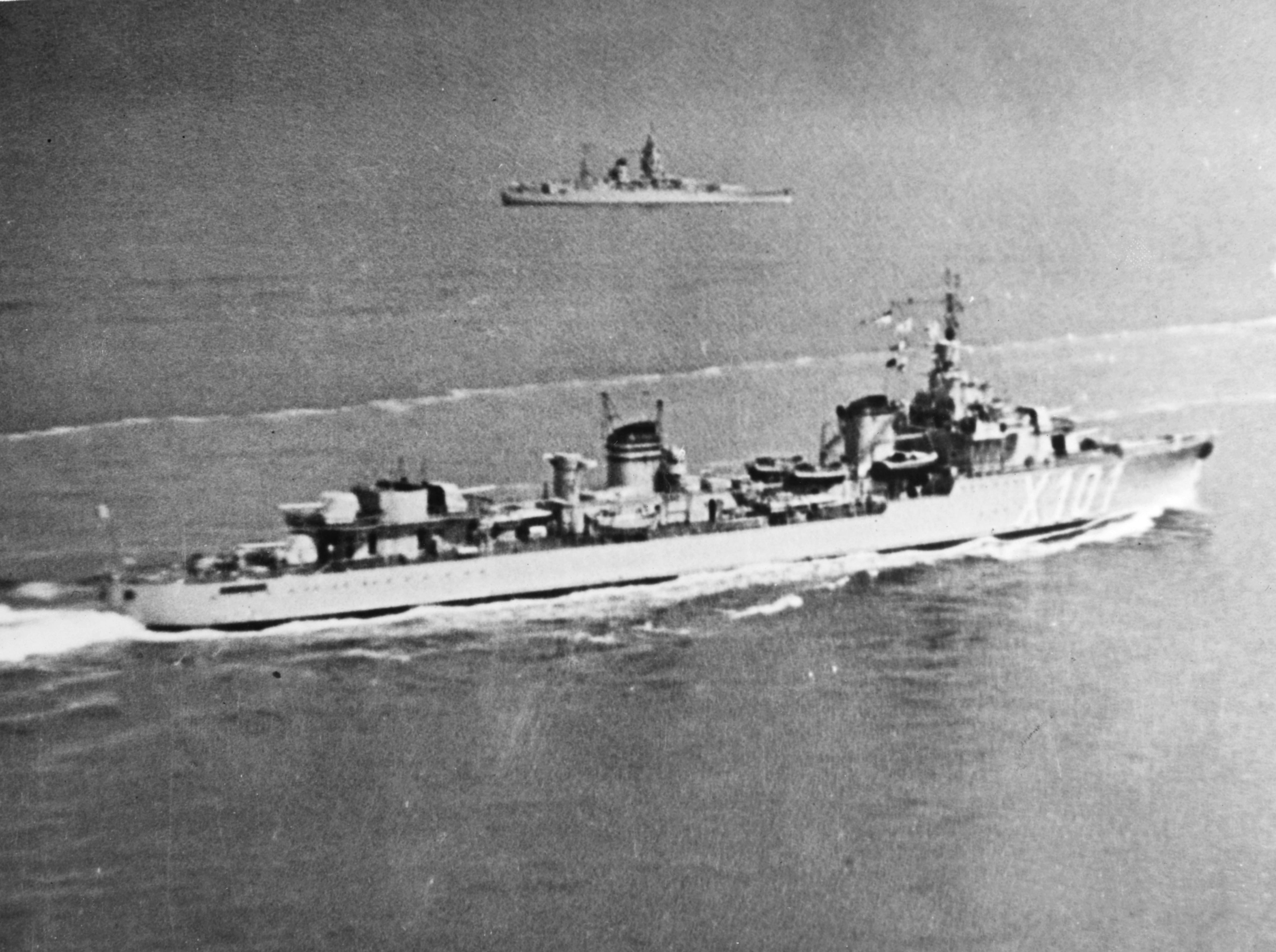 The French destroyer Le Fantasque underway during exercises in the Atlantic, June 1939. The battleship Dunkerque is in the background.